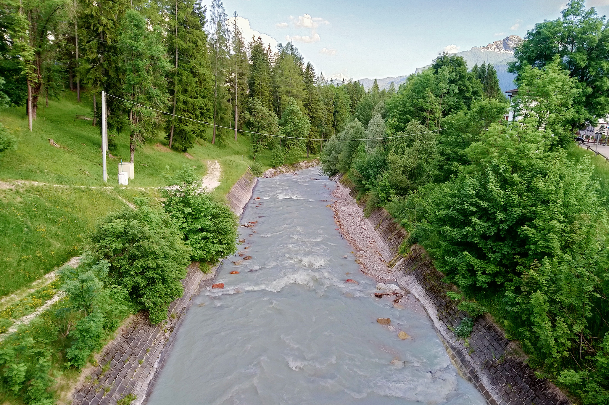 Boite river in Cortina d'Ampezzo, Italy.